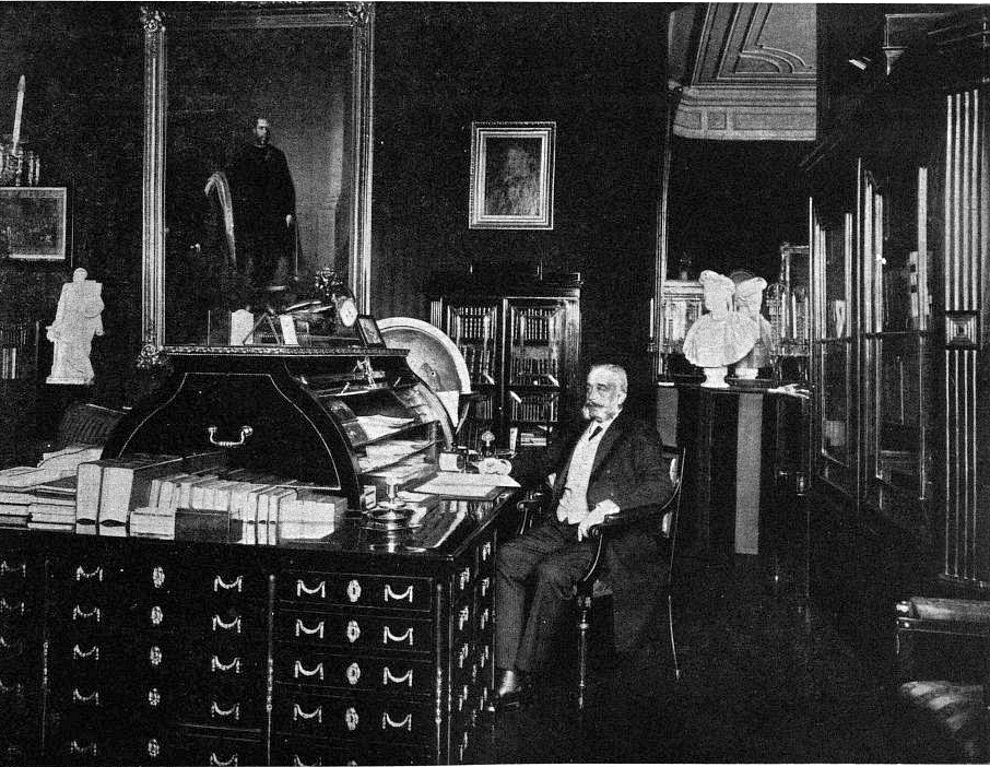 Count Agenor Maria Goluchowski (1849-1921), Minister of Foreign Affairs of Austria-Hungary, at his office.